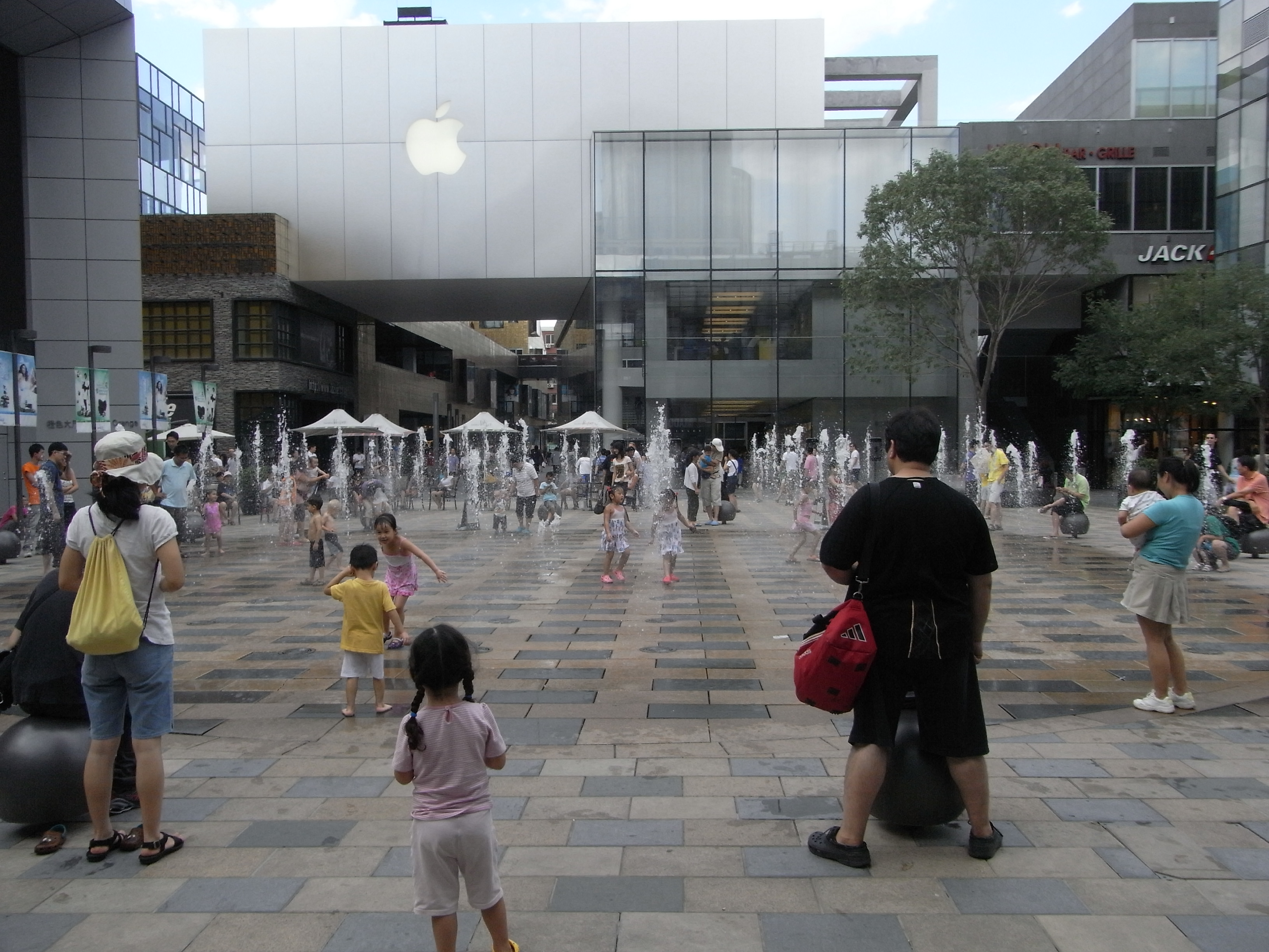 北京朝陽區2010年8月 Sanlitun